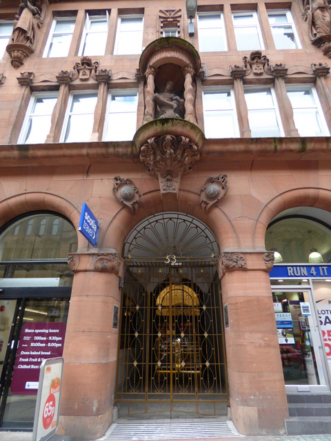 Mercantile Chambers